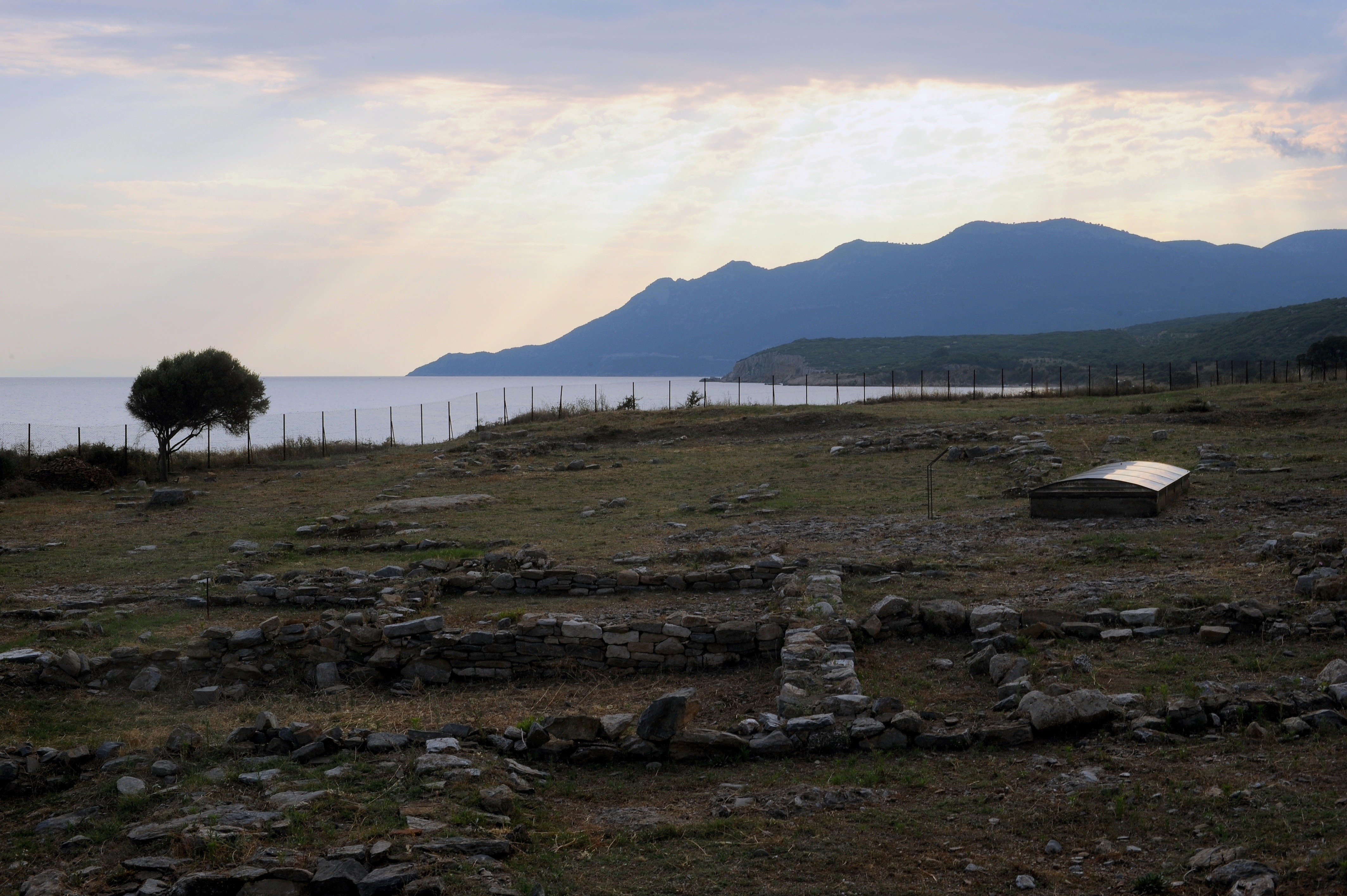 Mesembria archaeological place - Thrace, Greece: landscape.